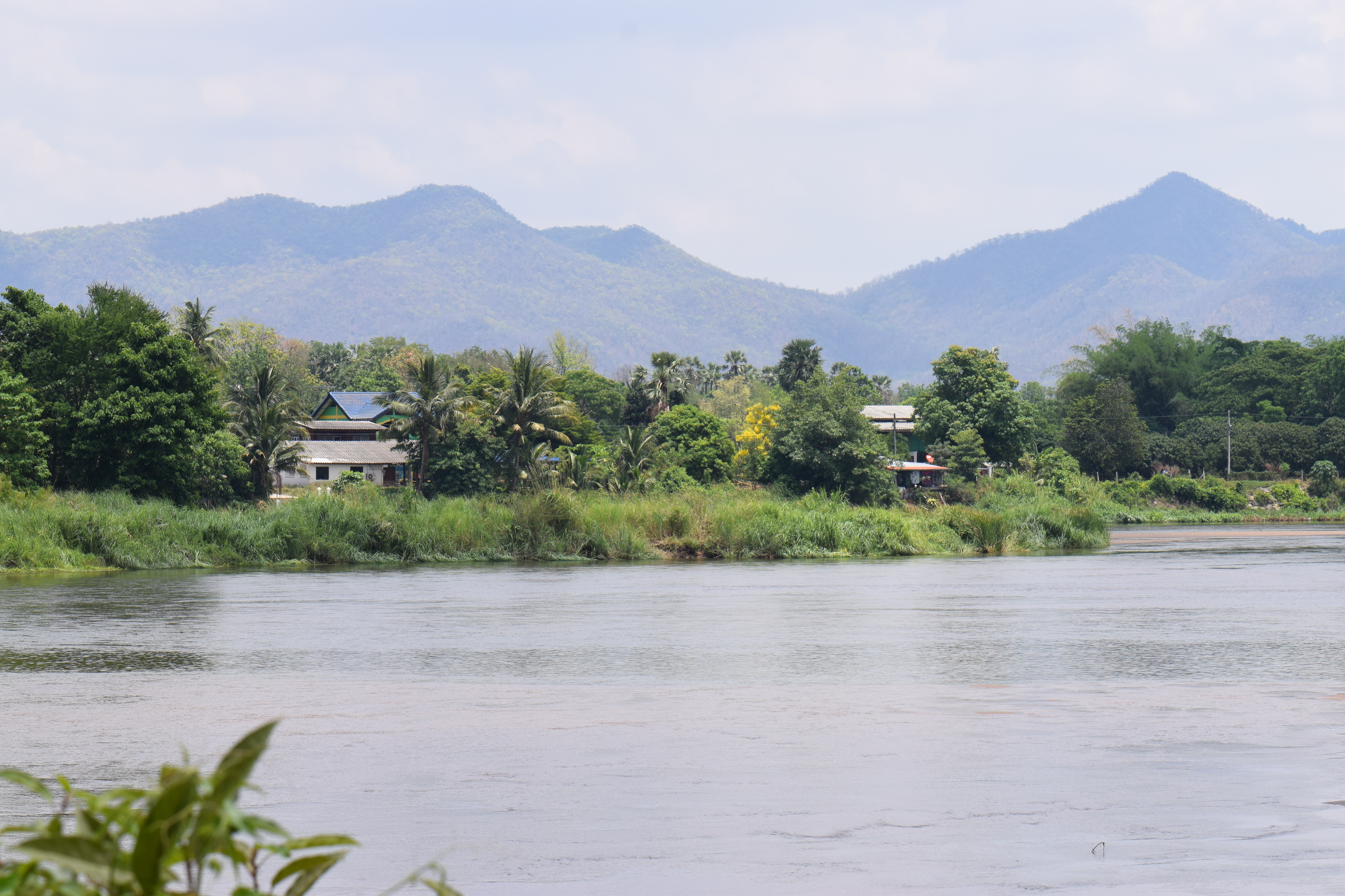 Village on the Ping River in Tak Province, Thailand.